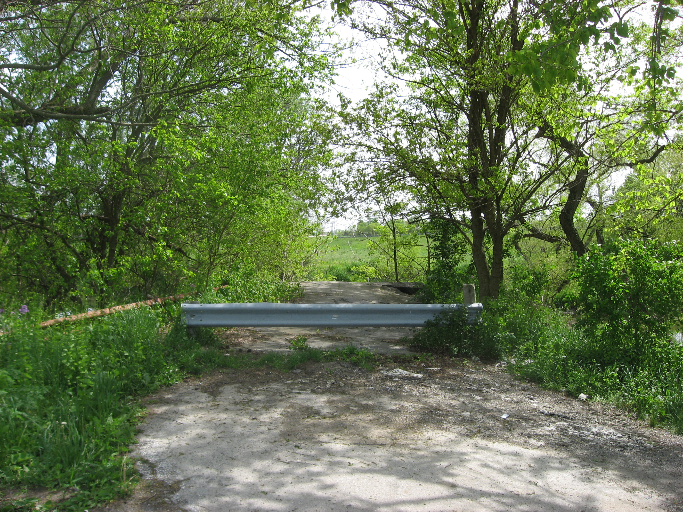 Barrier at the site of the northern portal of the Reed Covered Bridge, which once carried State Route 38 over Darby Creek south of Marysville in Darby Township, Union County, Ohio, United States. The bridge was listed on the National Register of Historic Places in 1975; it remains on the Register despite having collapsed in August of 1993.